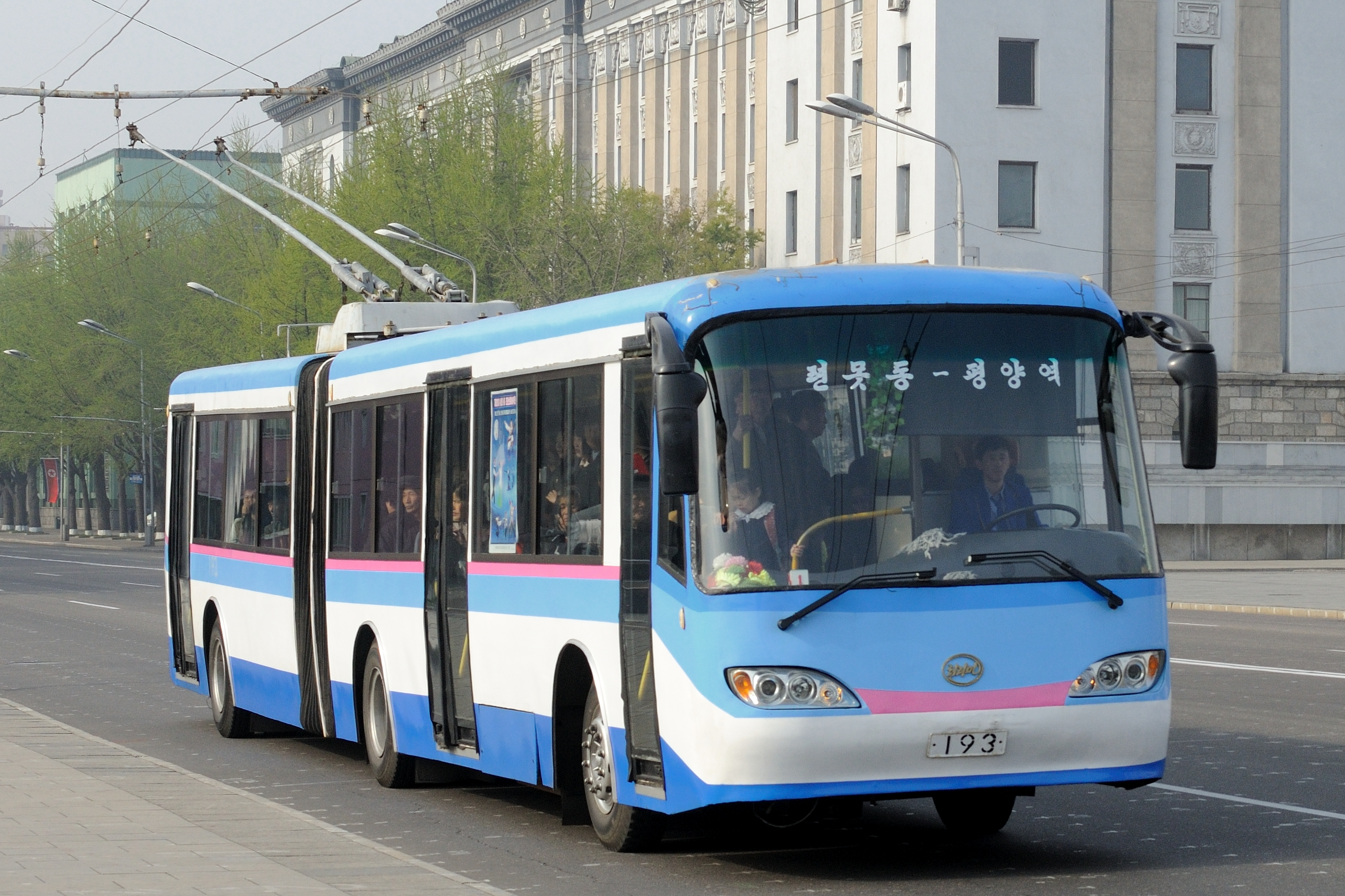 Chollima-091 193 in Pyongyang